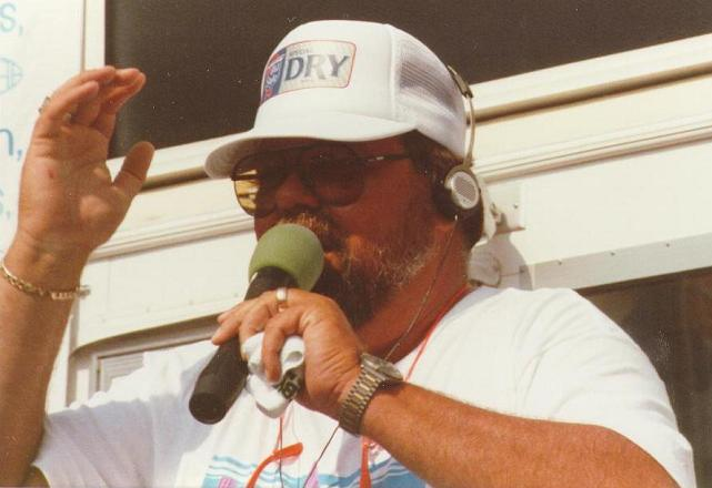 I took this photo of Bob Collins at Taste of Chicago on July 3, 1989.